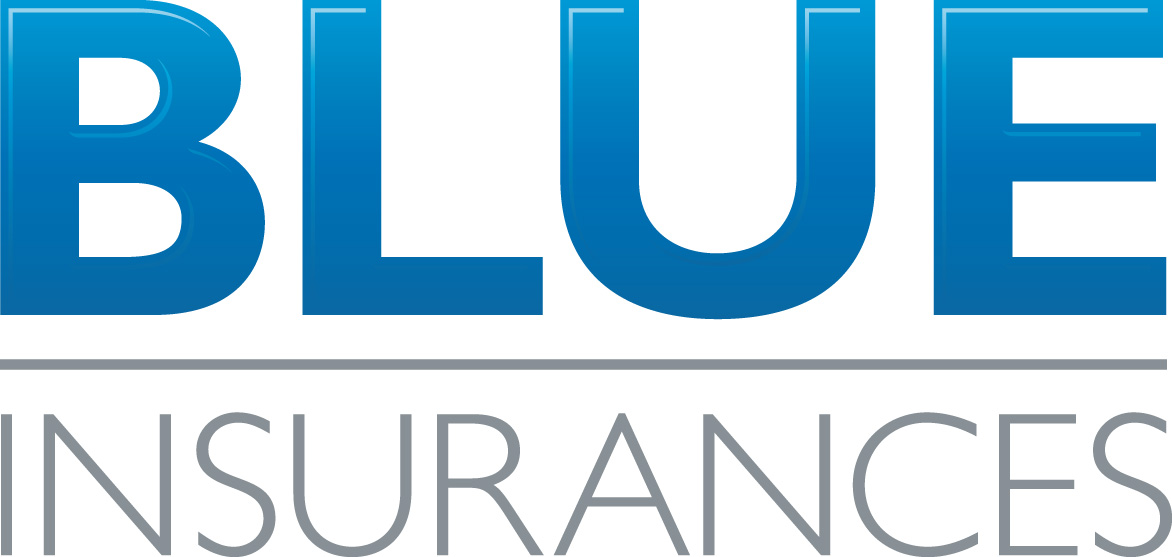 Blue Insurances Logo